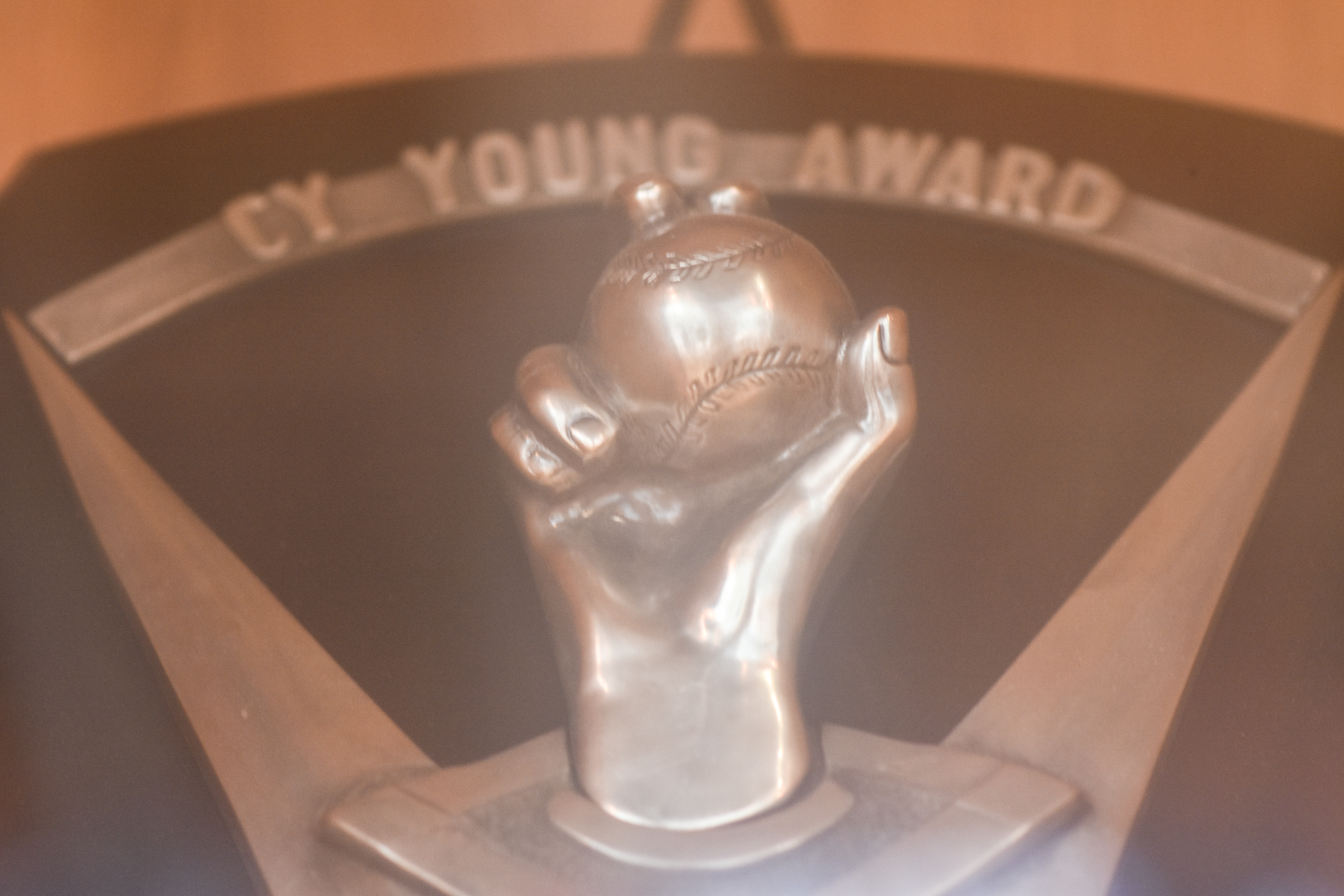 Corey Kluber Cy Young Award